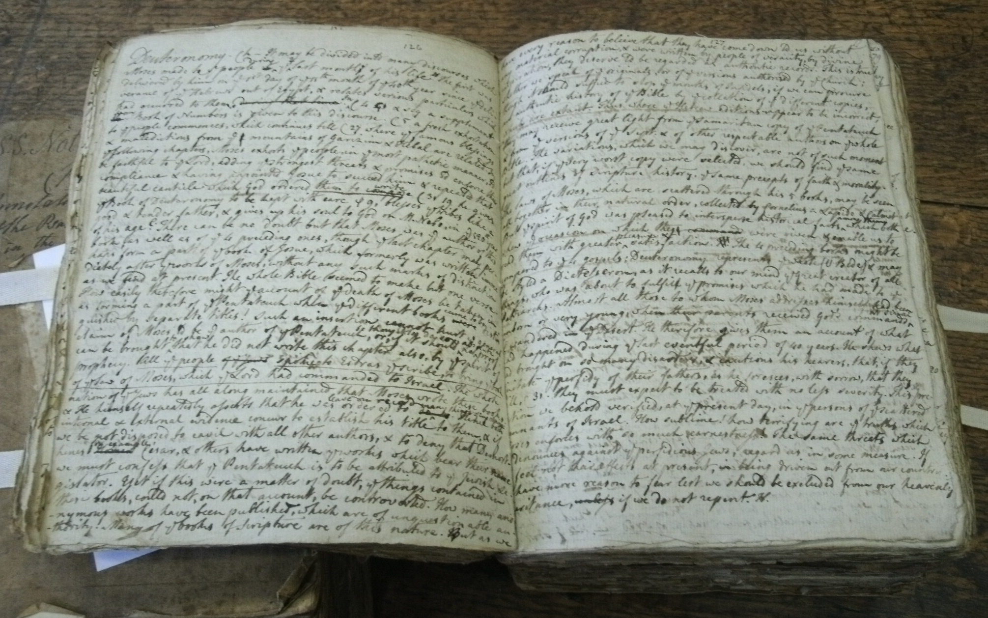 Modern photograph of the original manuscript by Father George Leo Haydock of his annotations to the Old Testament.